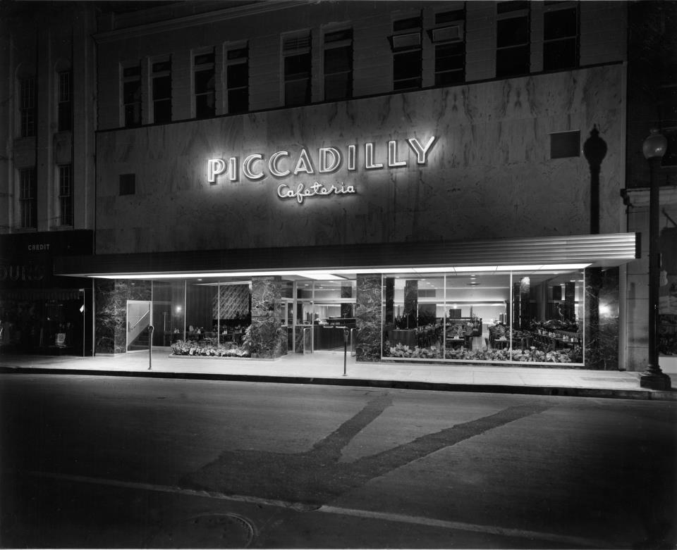 Vintage photo of Piccadilly restaurant